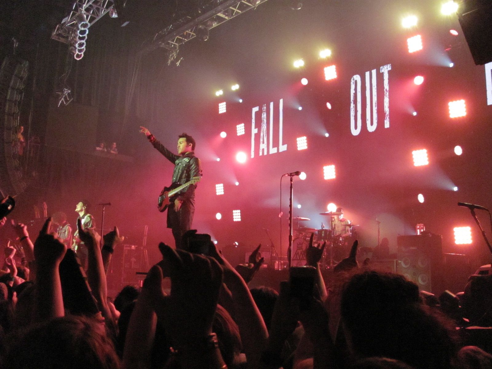 FOB live.